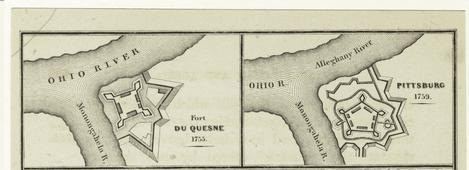 "Fort Duquesne (originally called Fort Du Quesne, and pronounced "du-kane") was a fort established by the French in 1754, at the junction of the Allegheny and Monongahela rivers in what is now downtown Pittsburgh in the state of Pennsylvania." -- Retrieved 05-12-10